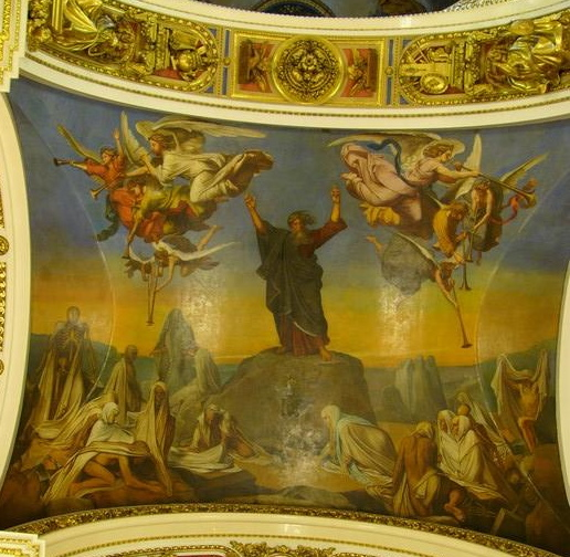 "Ezekiel's vision of dry bones" (Feodor Bruni) - fresco in St Isaak Cathedral (St Petersburg)